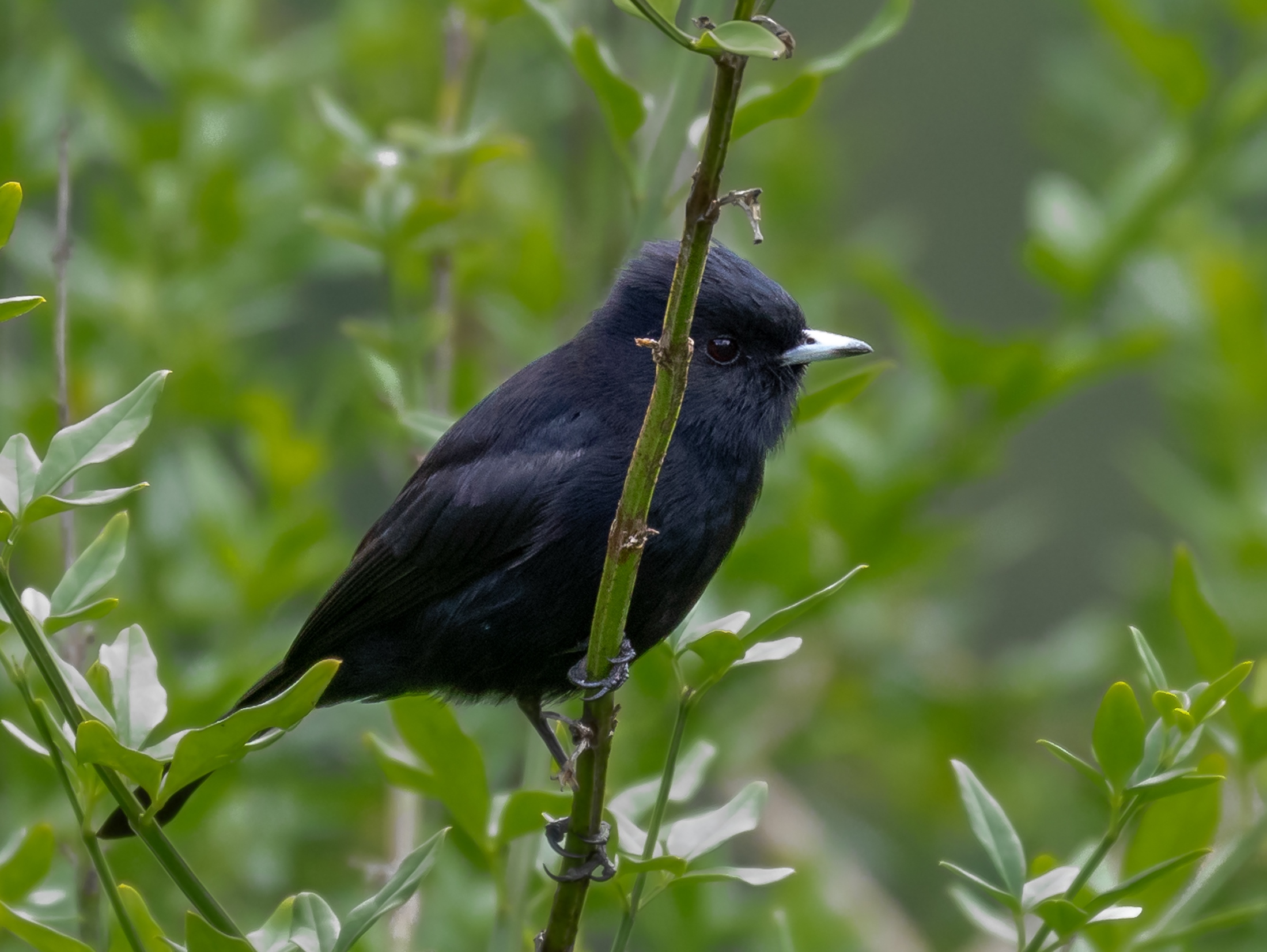 Velvety black-tyrant (male); Campos do Jordão, São Paulo, Brazil